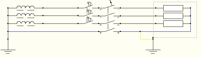 TN-C system